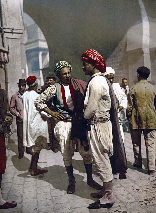 Photo of Types of Arabs, Tunis, Tunisia. This color photochrome print was made in 1899 in Tunis, Tunisia.